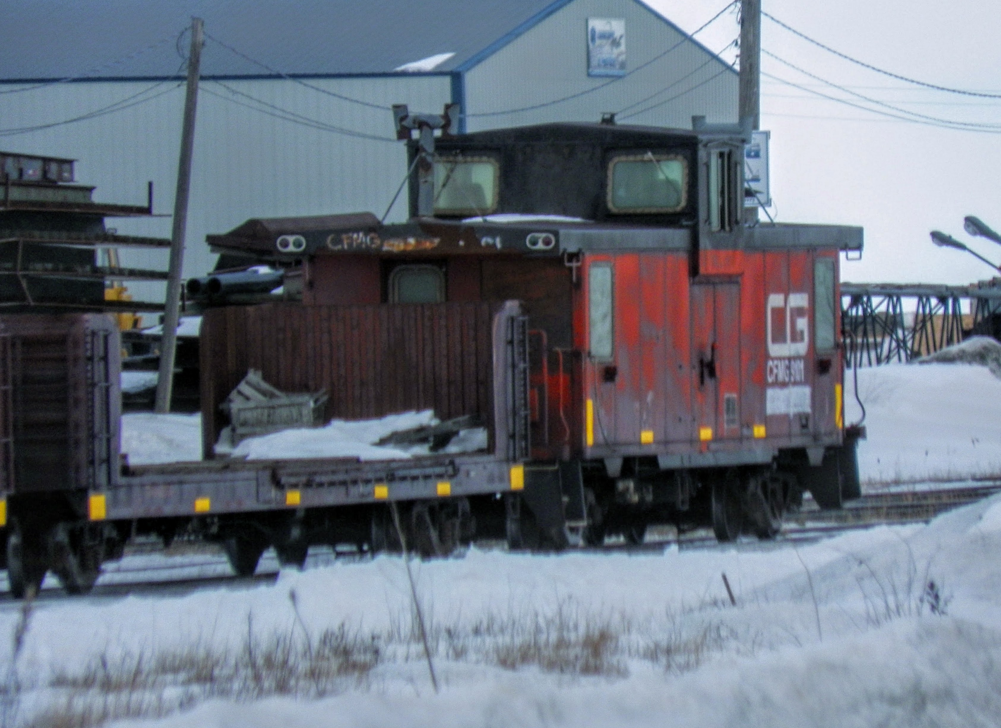 Matapédia and Gulf Railway caboose n° 9101 on duty for the rail ferry operations in Matane harbour